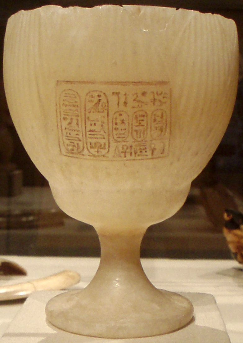 Egyptian alabaster goblet inscribed with the name of Amenhotep IV, prior to his adoption of the name Akhenaten in year 5 of his reign.